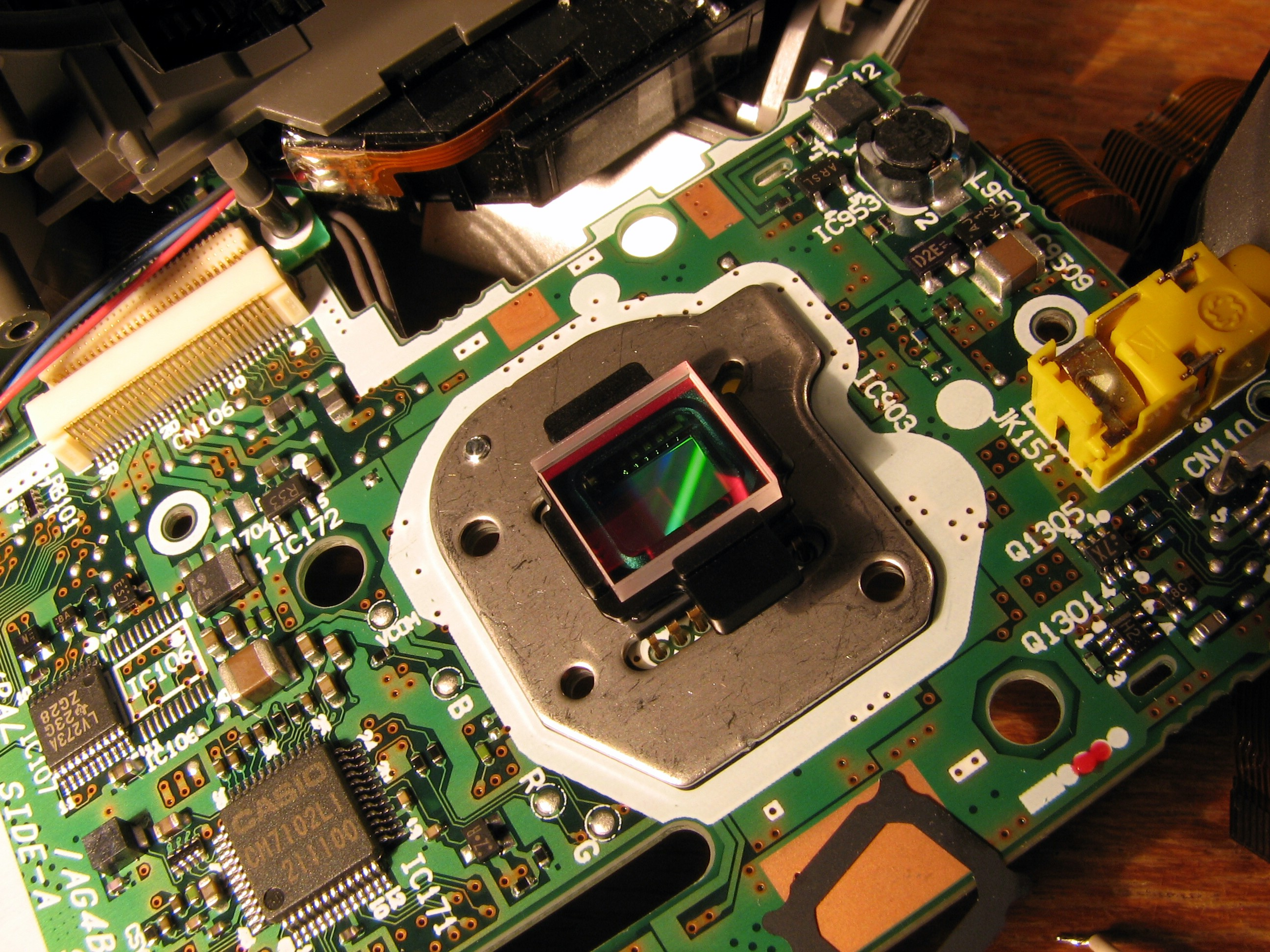 The business end of a digital camera - the image sensor. Even if I manage to fix the lens barrel and get the camera back together without scratching the sensor or getting my greasy fingers all over it, it will still be gathering image degrading dust the whole time in malevolent silence. Just to add to the degree of difficulty, there was a little black frame-like thing sitting atop the sensor. I assume that it is a baffle to stop light leaking onto the sensor. Whatever it is, it fell off. You can see it at the bottom of the photo.